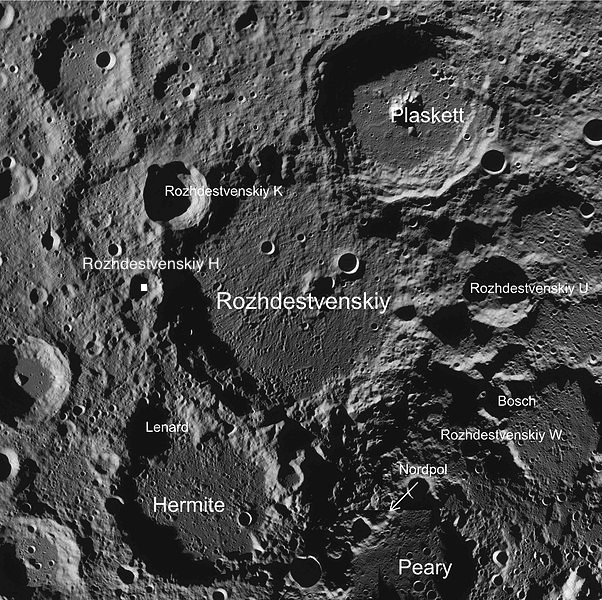 Part of the chart LAC-1 used for the presentation